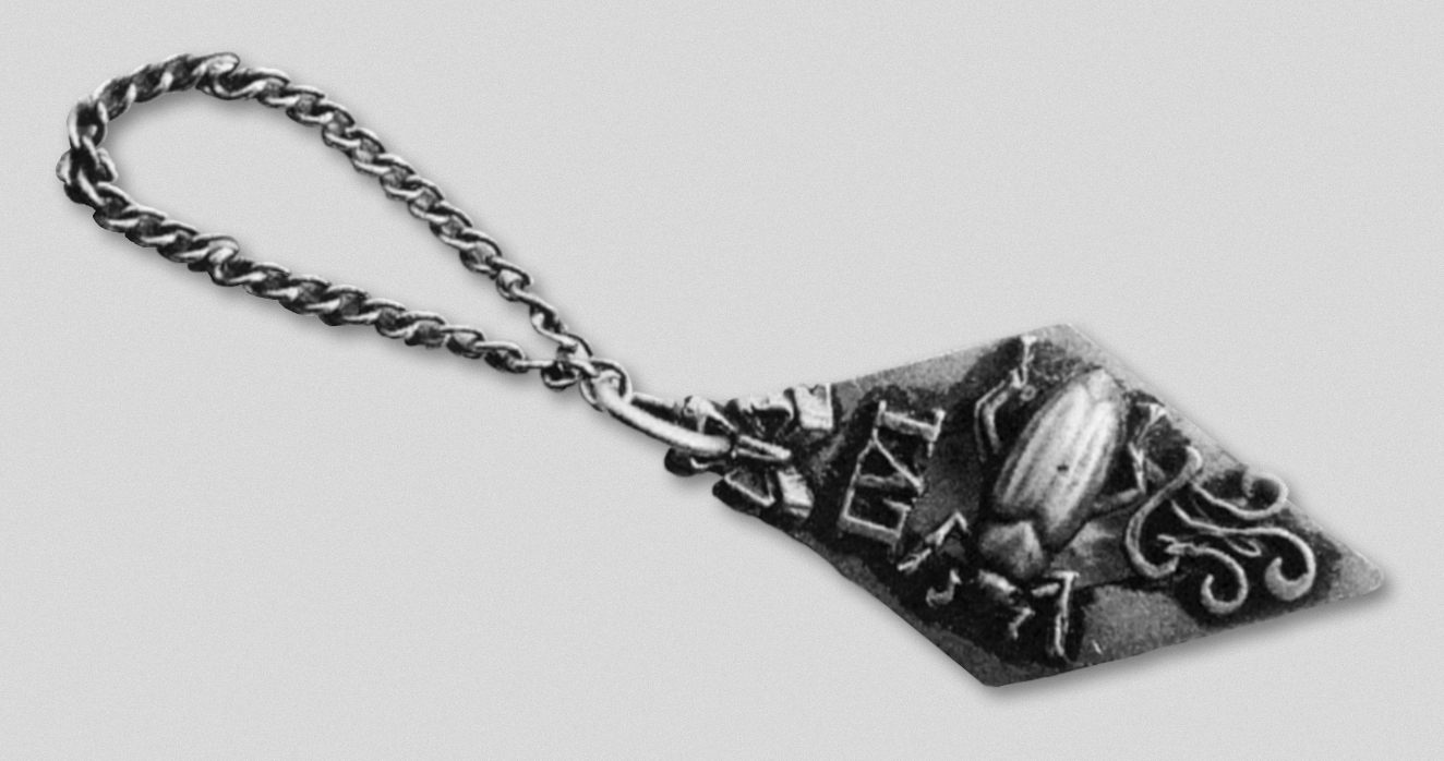 Medal with which graduates of a school were awarded in 1927.